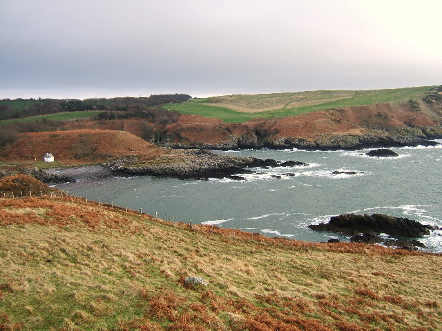 Port Kale and Port Mora Bays from Catebraid near Portpatrick